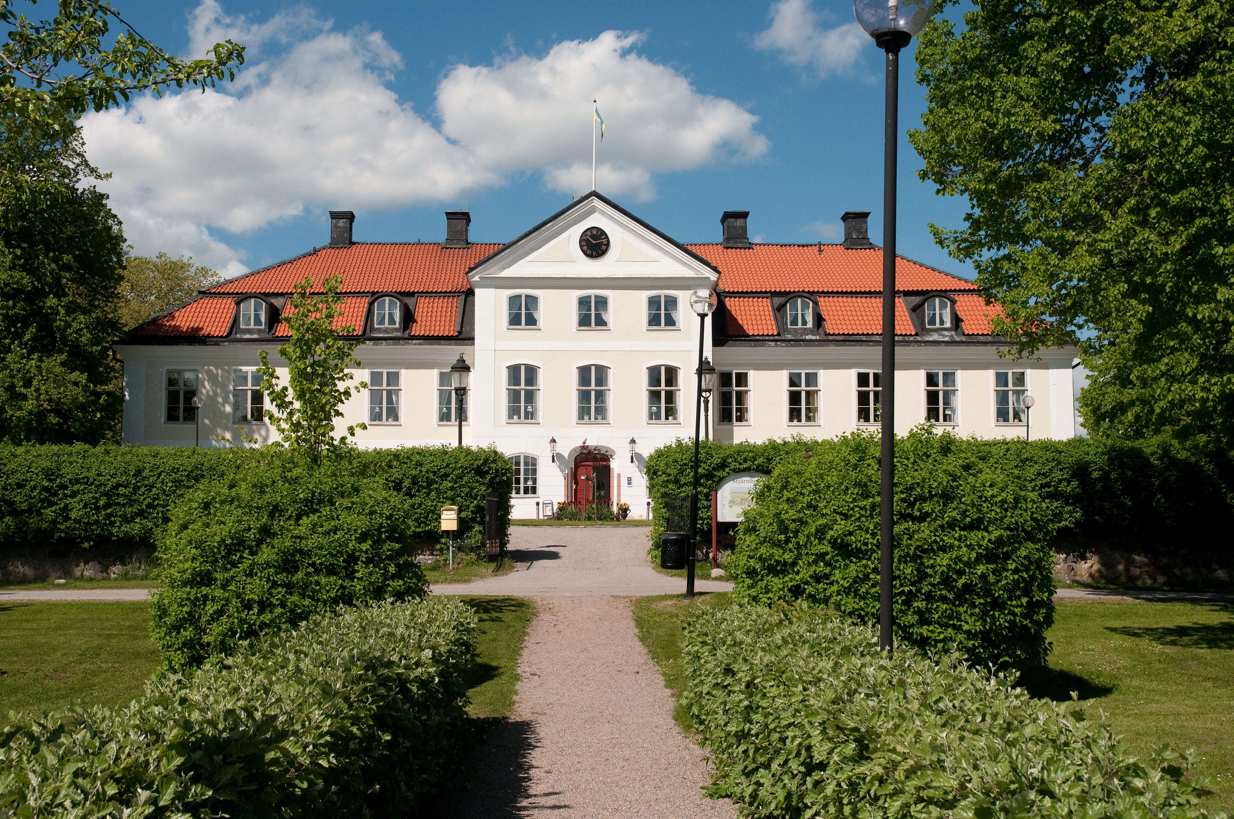 Stjärnholms Castle